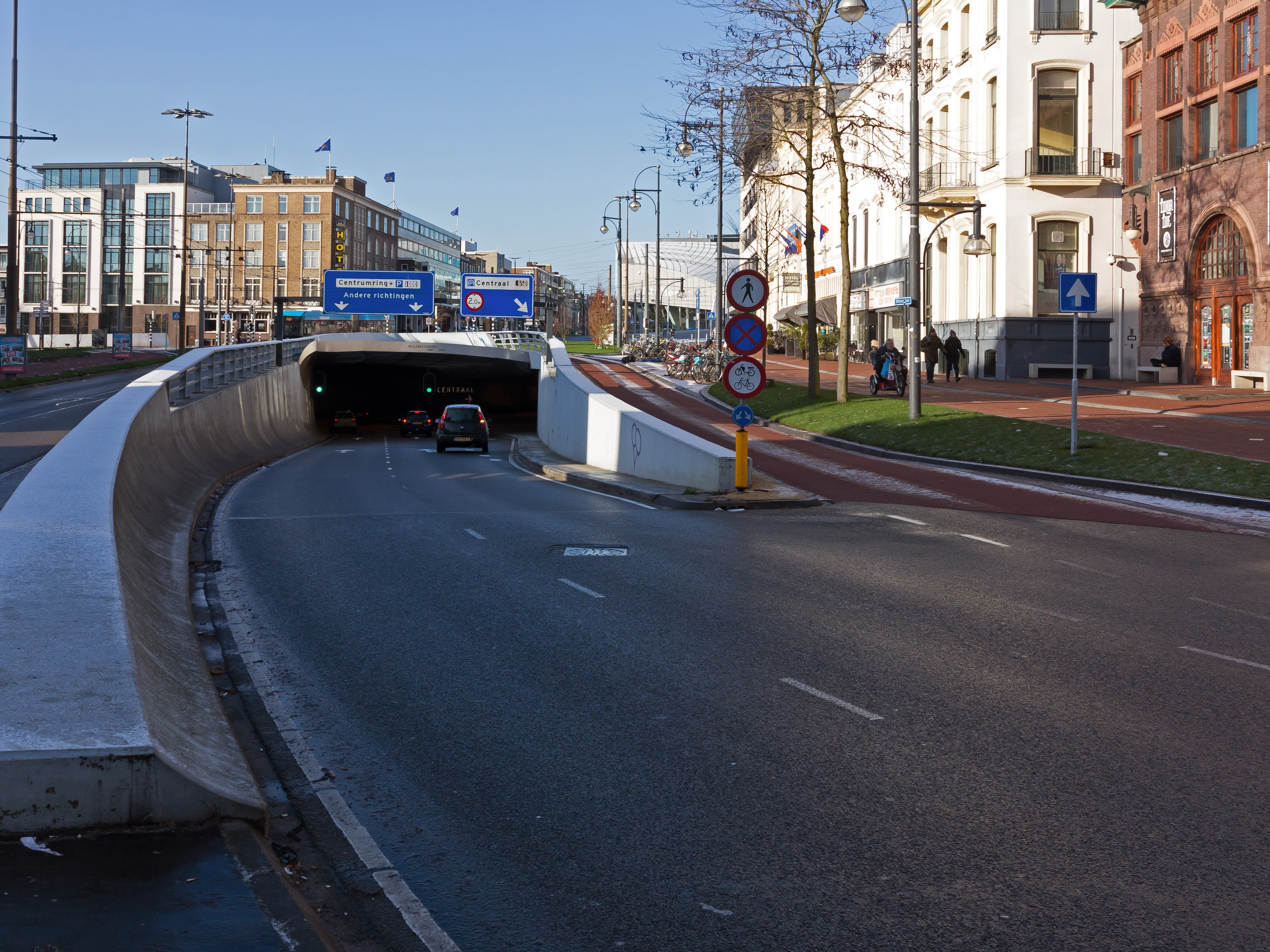 Arnhem, tunnel: de Willemstunnel